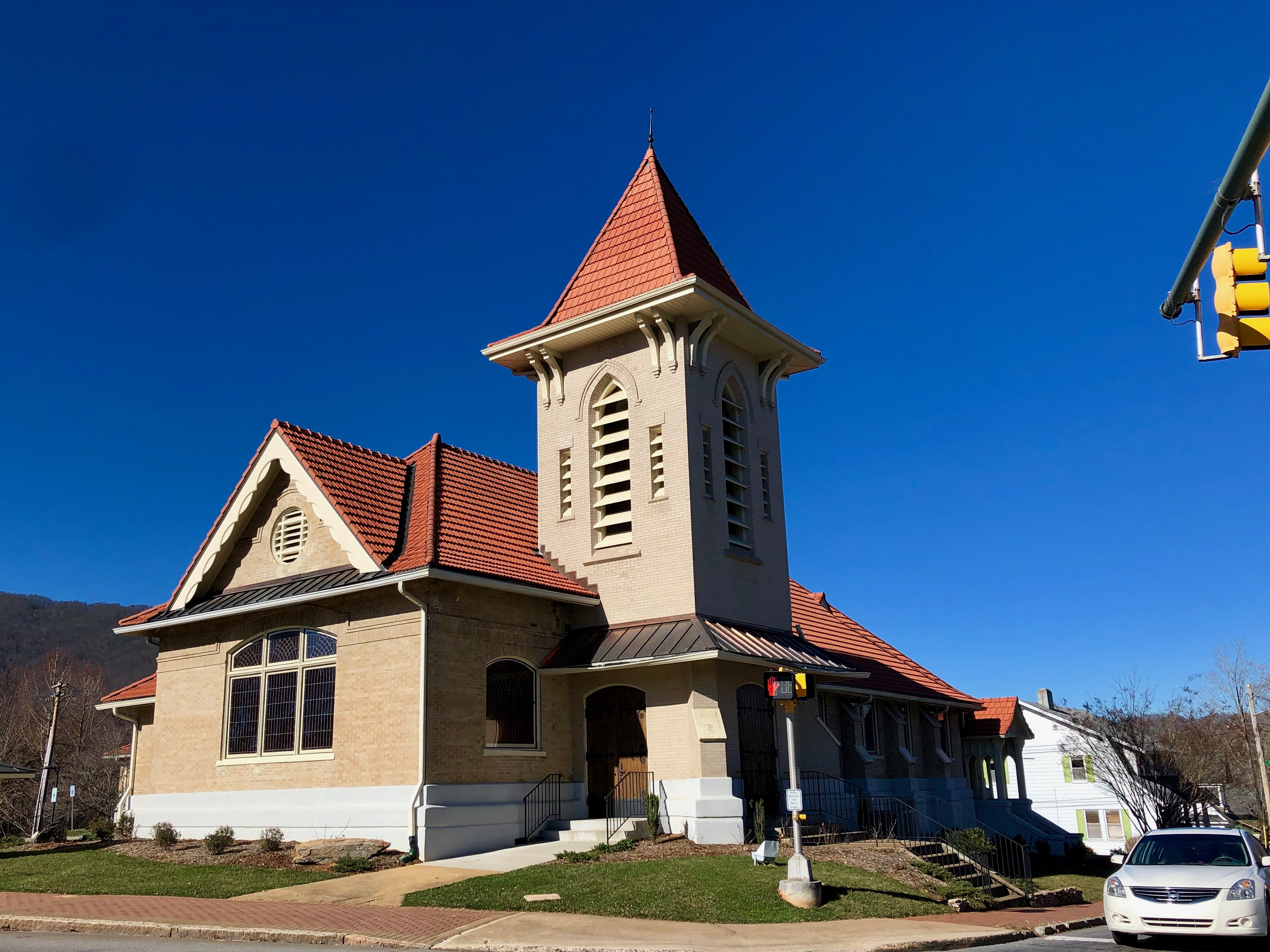 First Presbyterian Church, Waynesville, NC